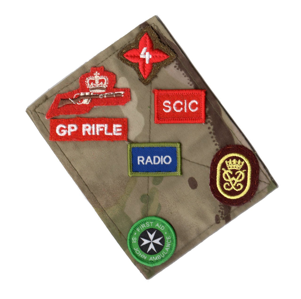 This is an example blanking plate showing badges that would be worn by and ACF cadet wearing MTP PCS-CU Uniform.